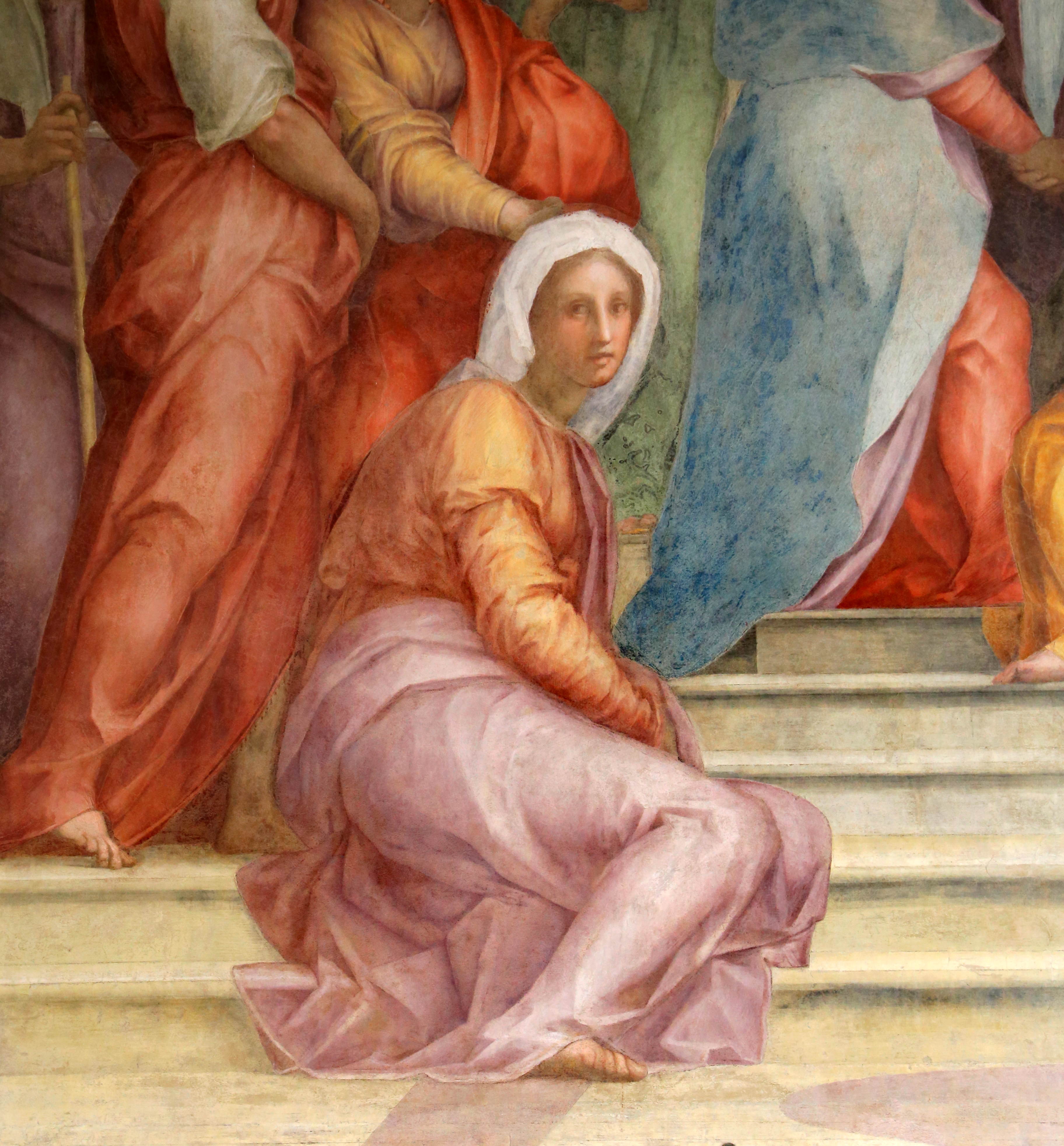 Chiostro dei Voti - Visitation by Pontormo